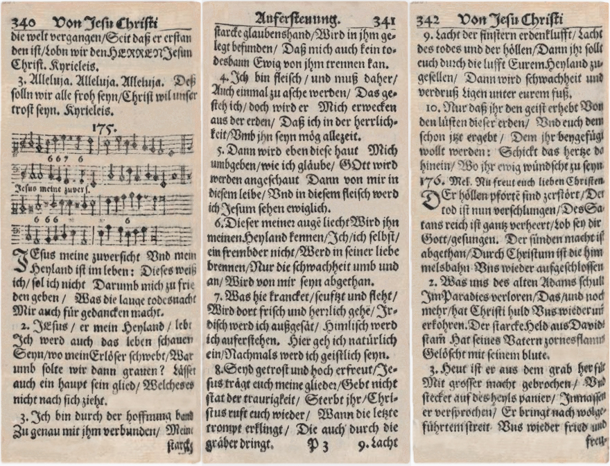 Scan of Jesus, meine Zuversicht in the 1653 edition of Praxis pietatis melica, p. 340-342, copy of Bayerische Staatsbibliothek München